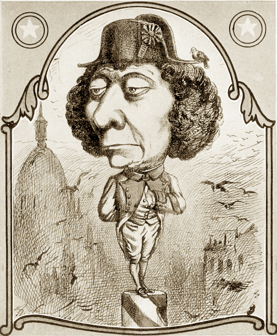 Caricature of French actress Virginie Dejazet (1798–1875), by Hippolyte Mailly.